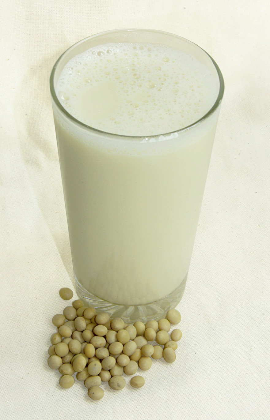 Glass of soy milk and soy beans.